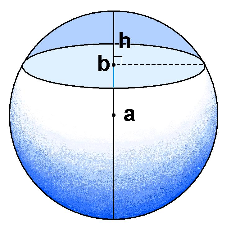 Spherical cap